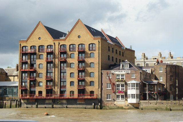 Captain Kidd, Wapping Riverside views, with a beer garden to the right of the pub. Photographed from a Thames Clipper.